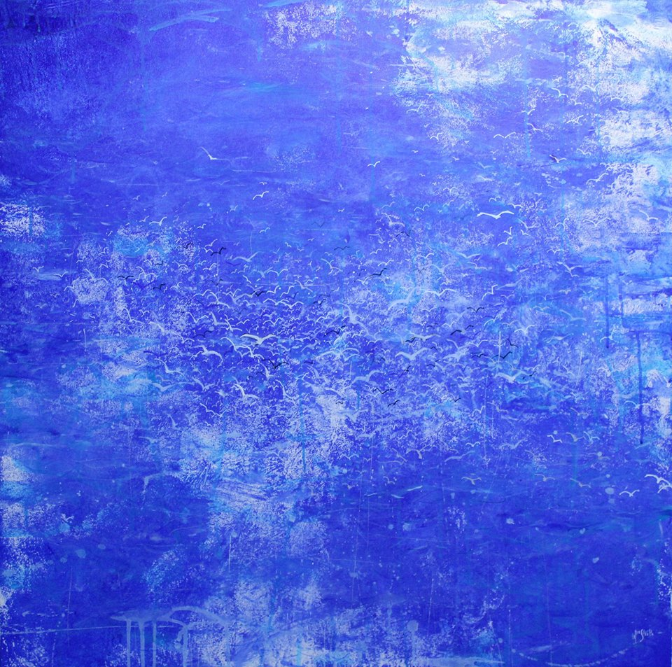 original painting, 100 x 100 cm